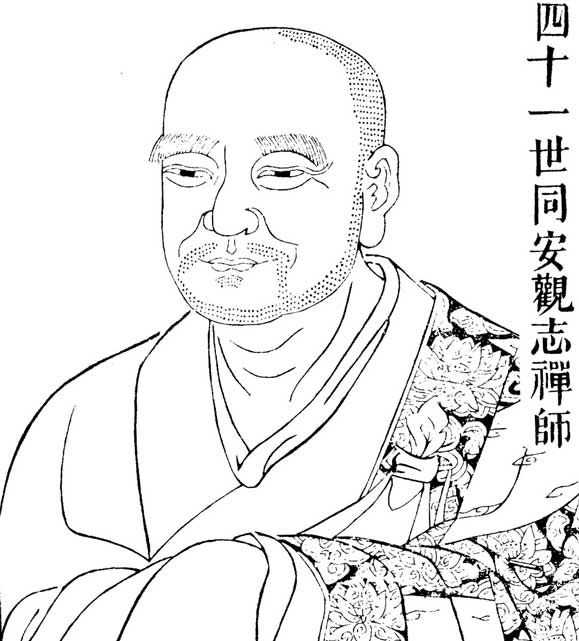 Drawing of Tongan Guanzhi, a 10th century Chinese Zen monk